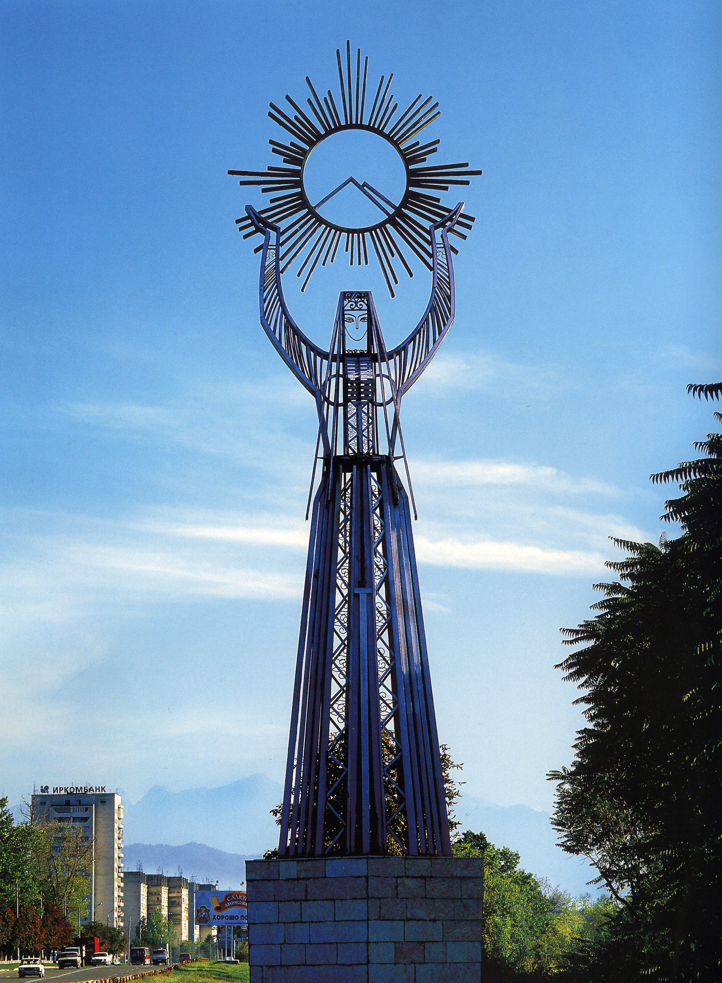 Object: Vladikavkaz, Russia Description: Simbol of Vladikavkaz Author: Вся Осетия (Vsia Osetia) Created: 2006 Source: Вся Осетия (Vsia Osetia)